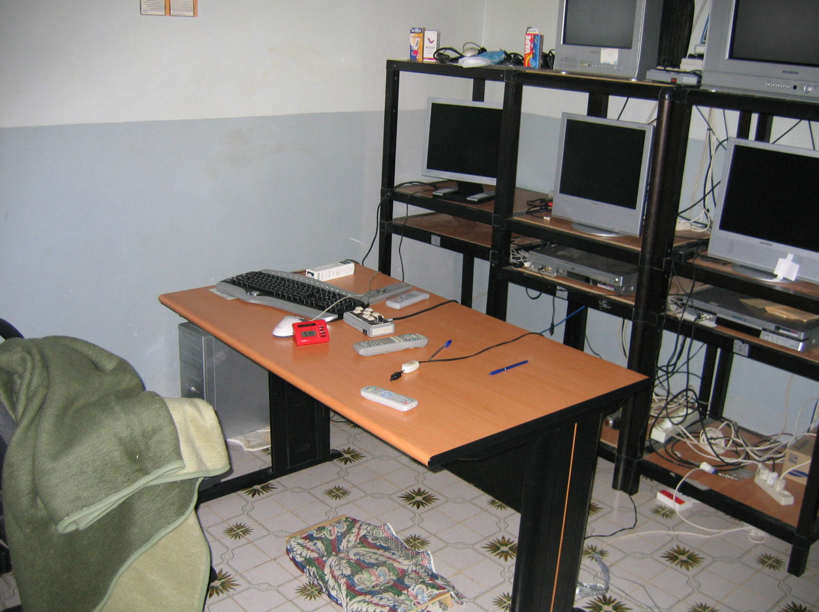 August 10, 2006 Hezbollah weaponry captured during an operation in southern Lebanon. Pictured: An analysis station for viewing live spy footage of Israeli forces.